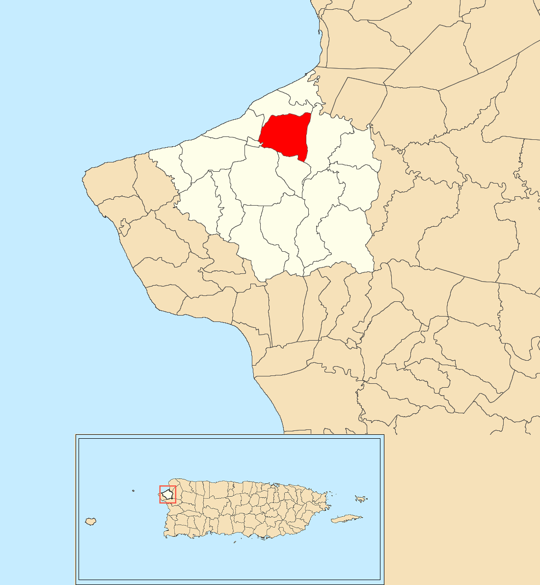 Asomante, Aguada, Puerto Rico locator map